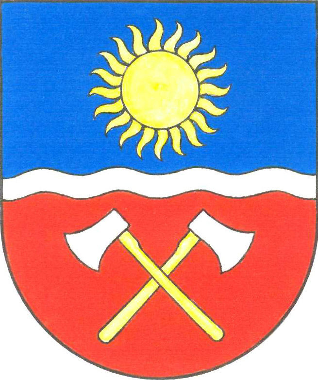 Coat of amrs of Čím , District Příbram, Czech Republic